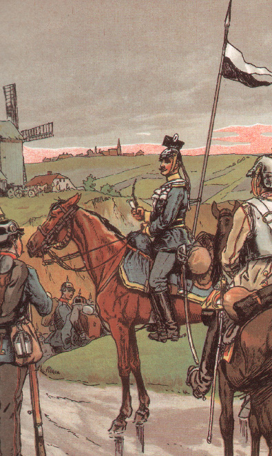 Prussian Uhlan (15th Regiment)